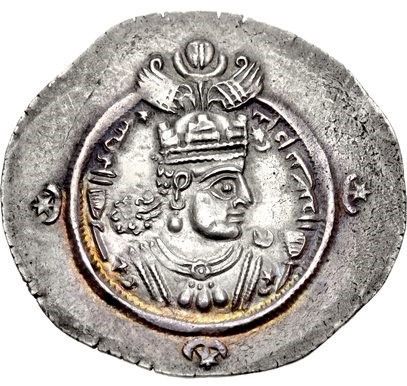 Coin of Ardashir III, Arrajan mint.